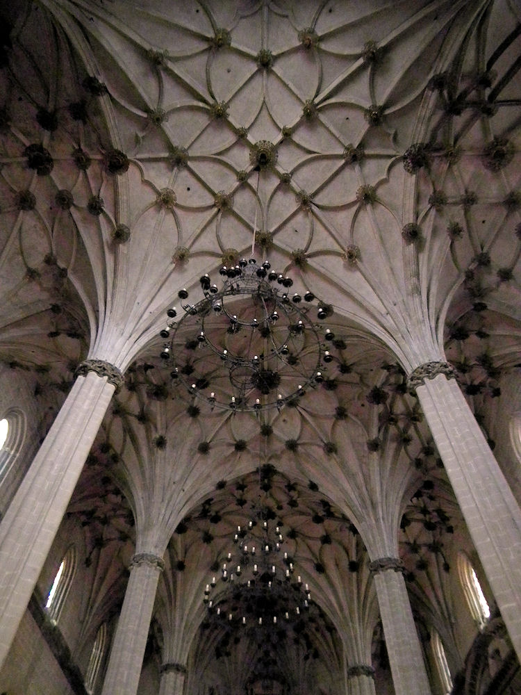 Gothic vault of the Catedral de Santa María de la Asunción, Barbastro, Huesca, Spain